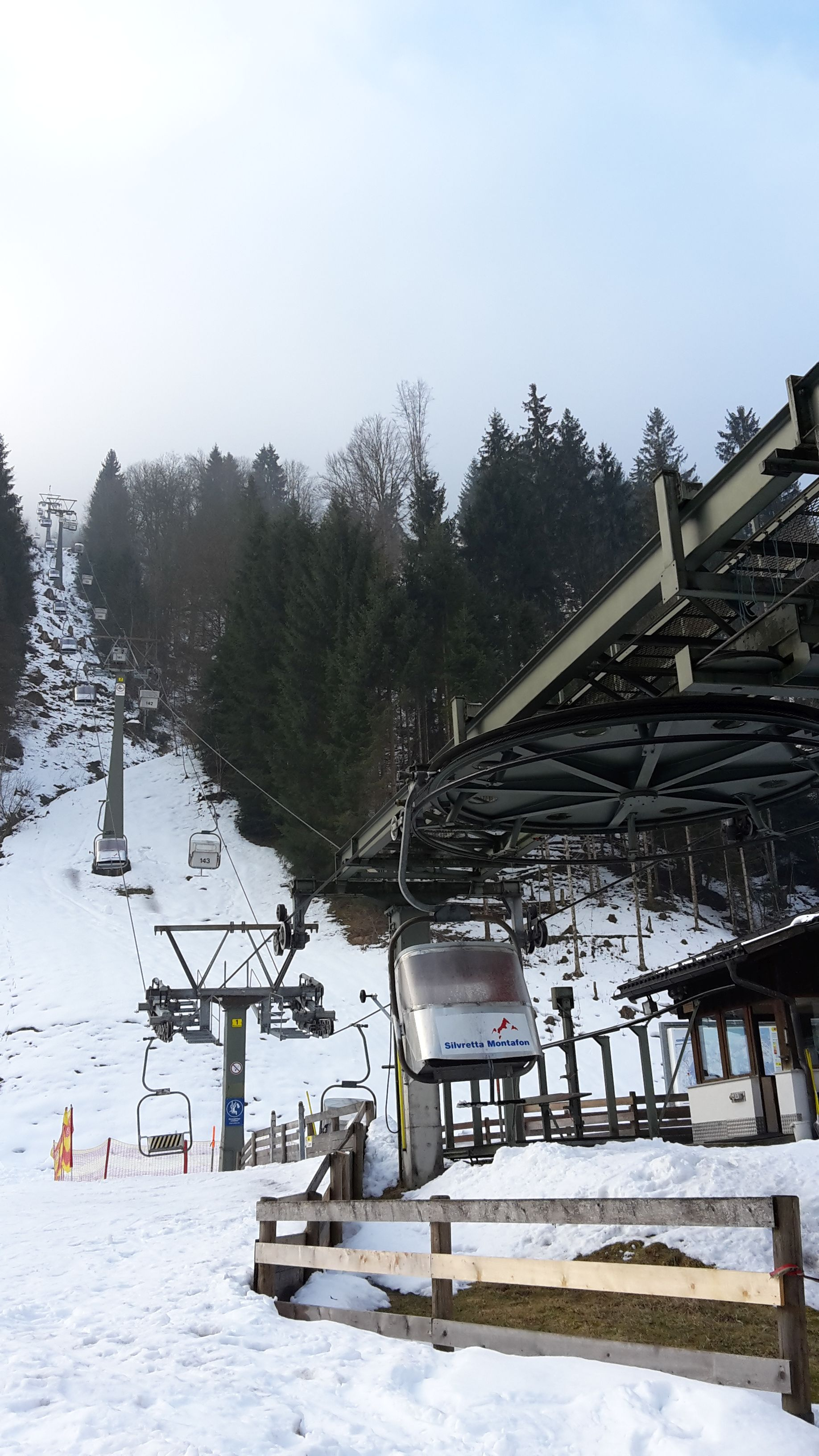 The Kapellbahn in Silbertal in Vorarlberg (Austria) is a two-seater chairlift, built in 1981 by Doppelmayr (Wolfurt). The ski area, which is accessed through the Kapellbahn, belongs to HochjochSilvretta-Montafon. The valley station is located at 855 masl and the mountain station at 1752 masl (altitude difference 897 m). Route distance 1889 m, Average incline 54,60% Largest incline 96,20%, with 22 columns. The maximum capacity is 656 people / hour with a travel time of 13.9 min and a speed of 2.3 m / s.